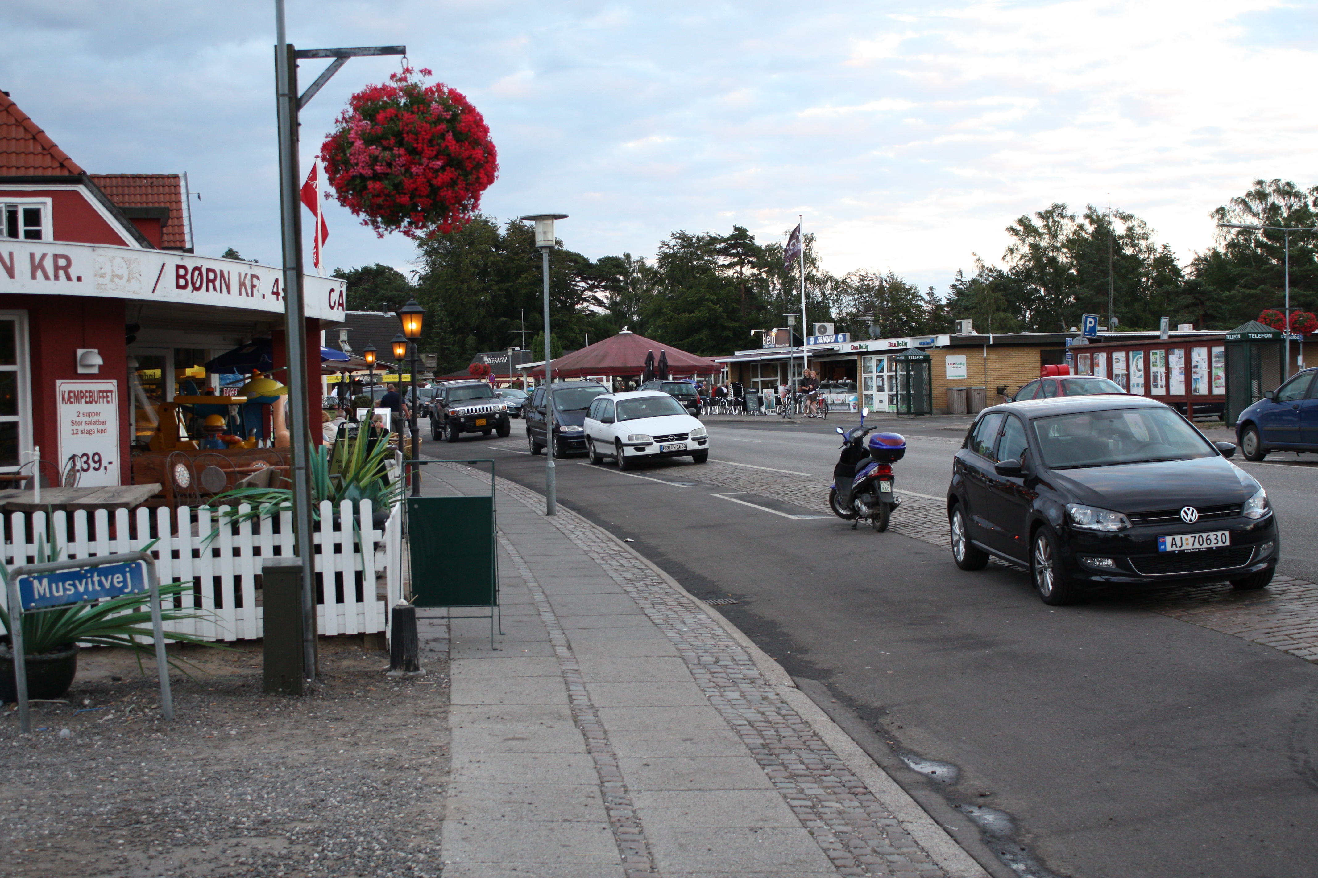 Marielyst, Falster, Denmark. Orginal description: Marielyst set mod torvet